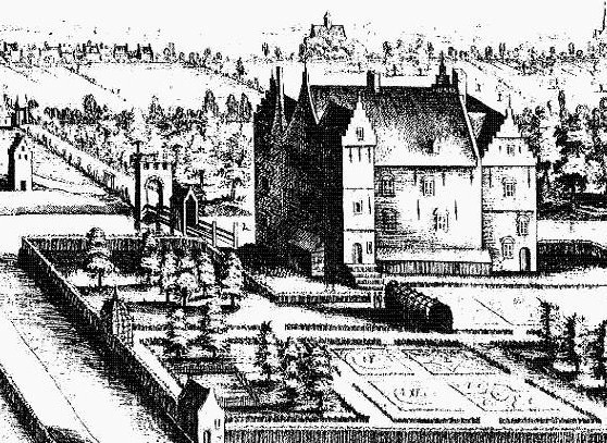 Flandria illustrata is an old book with the pictures and description of the villages and castles of the Flanders in 1641. It is publisched in 1644 and reprinted in 1735